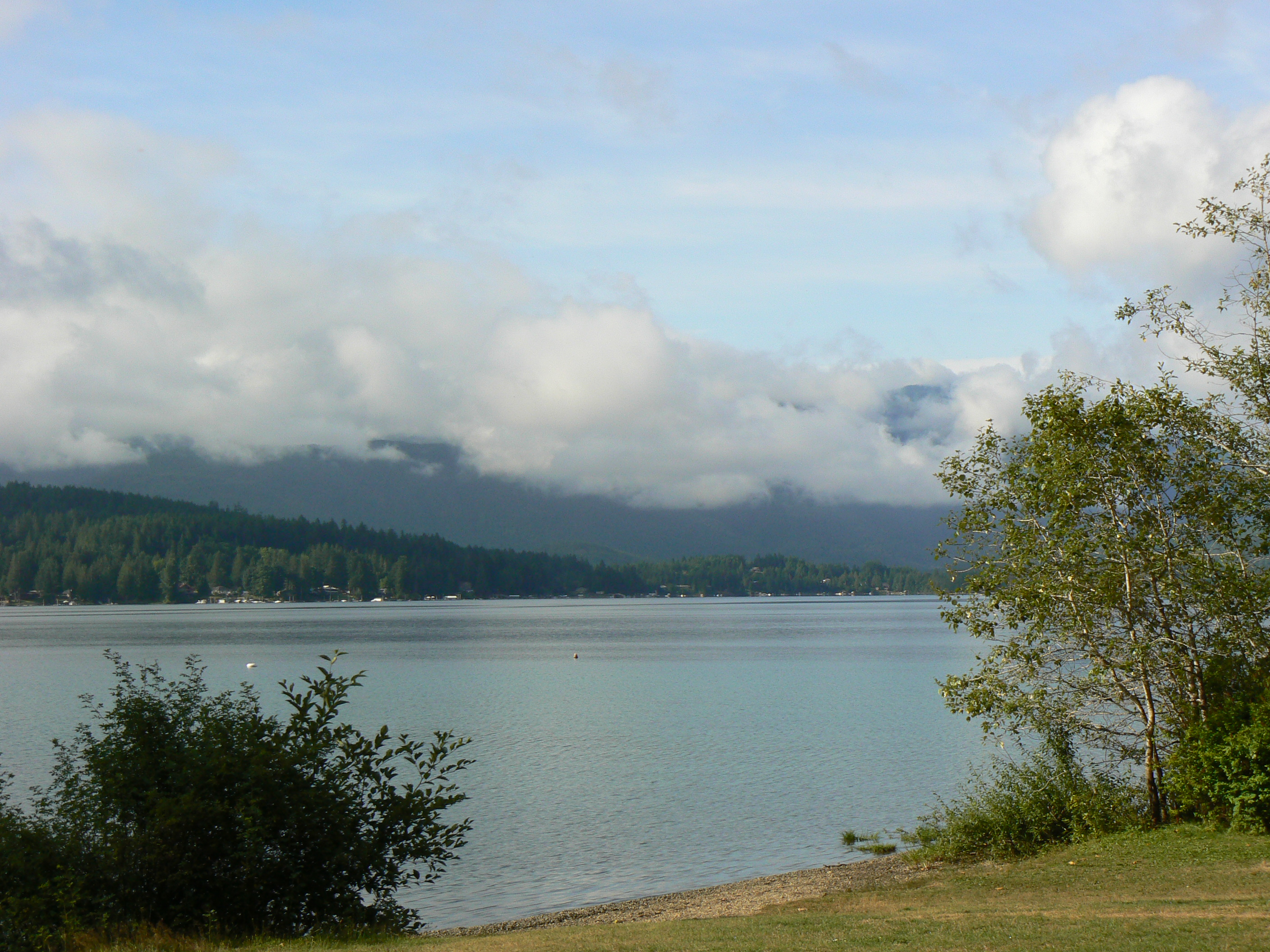 Morning at Sproat Lake Provincial Park near Port Alberni, BC